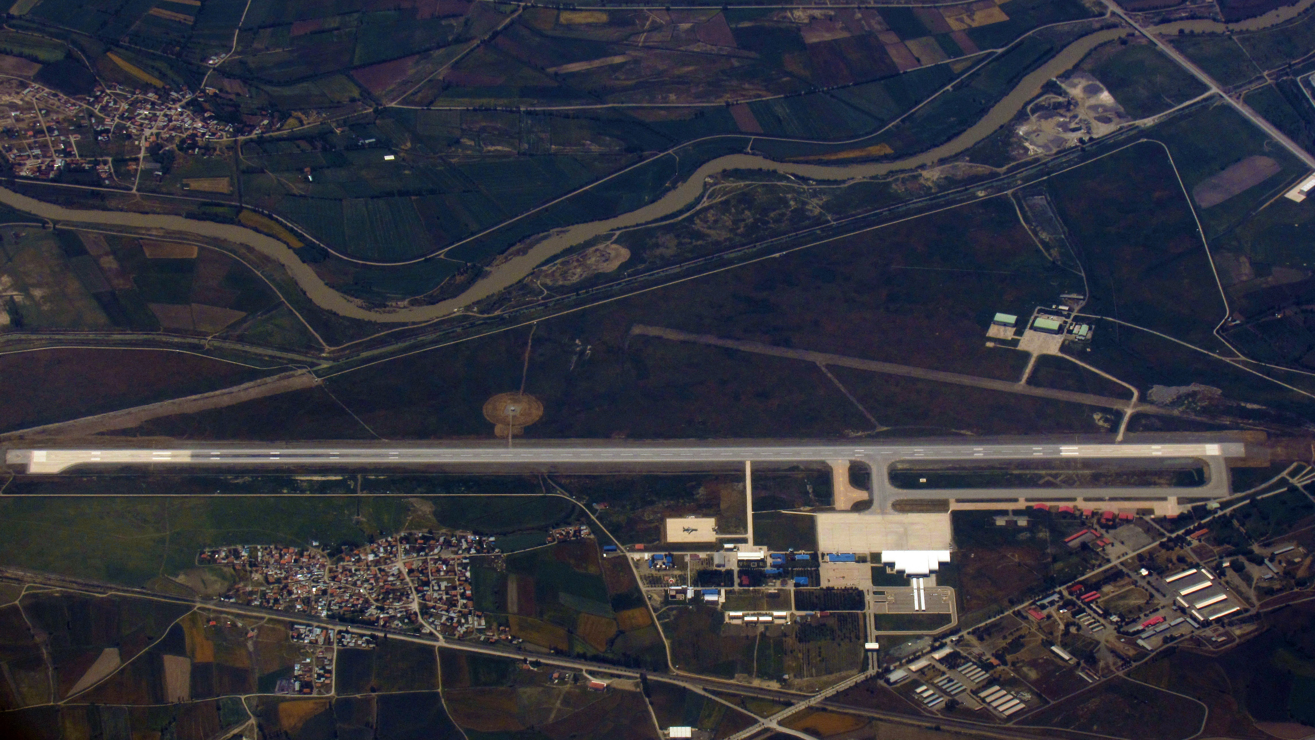 Aerial photograph of the Erzincan Airport in Turkey.